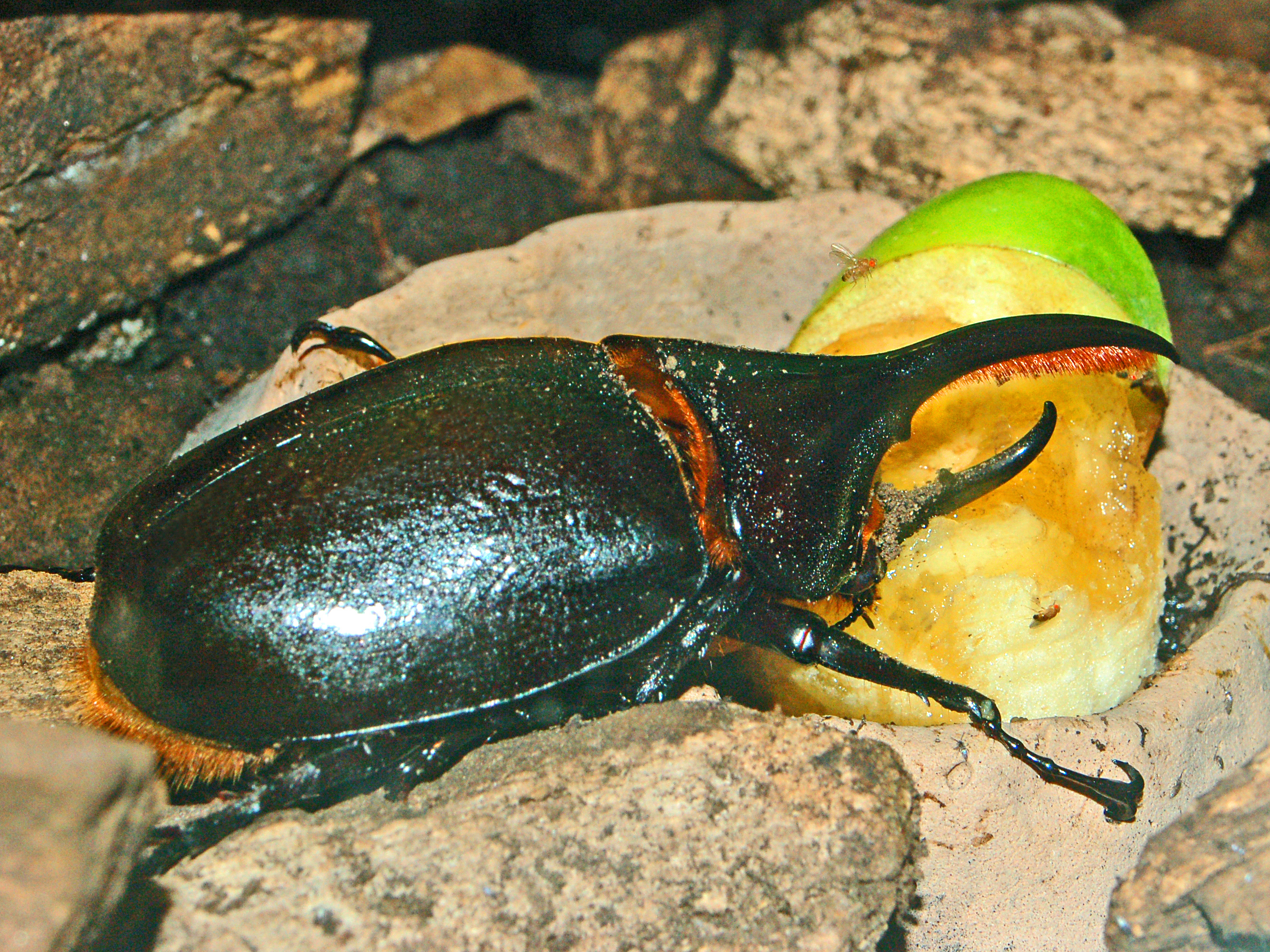 Dynastes satanas at the Montreal Insectarium